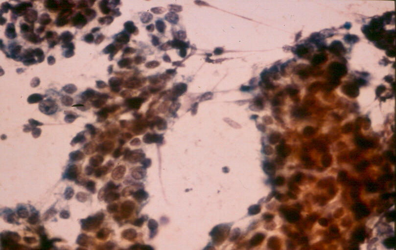 Fine needle biopsy aspirate consists of small, oval to spindle-shaped cells with small amount of cytoplasm and prominent nucleoli, characteristic of the embryonal cell type (hepatoblastoma).